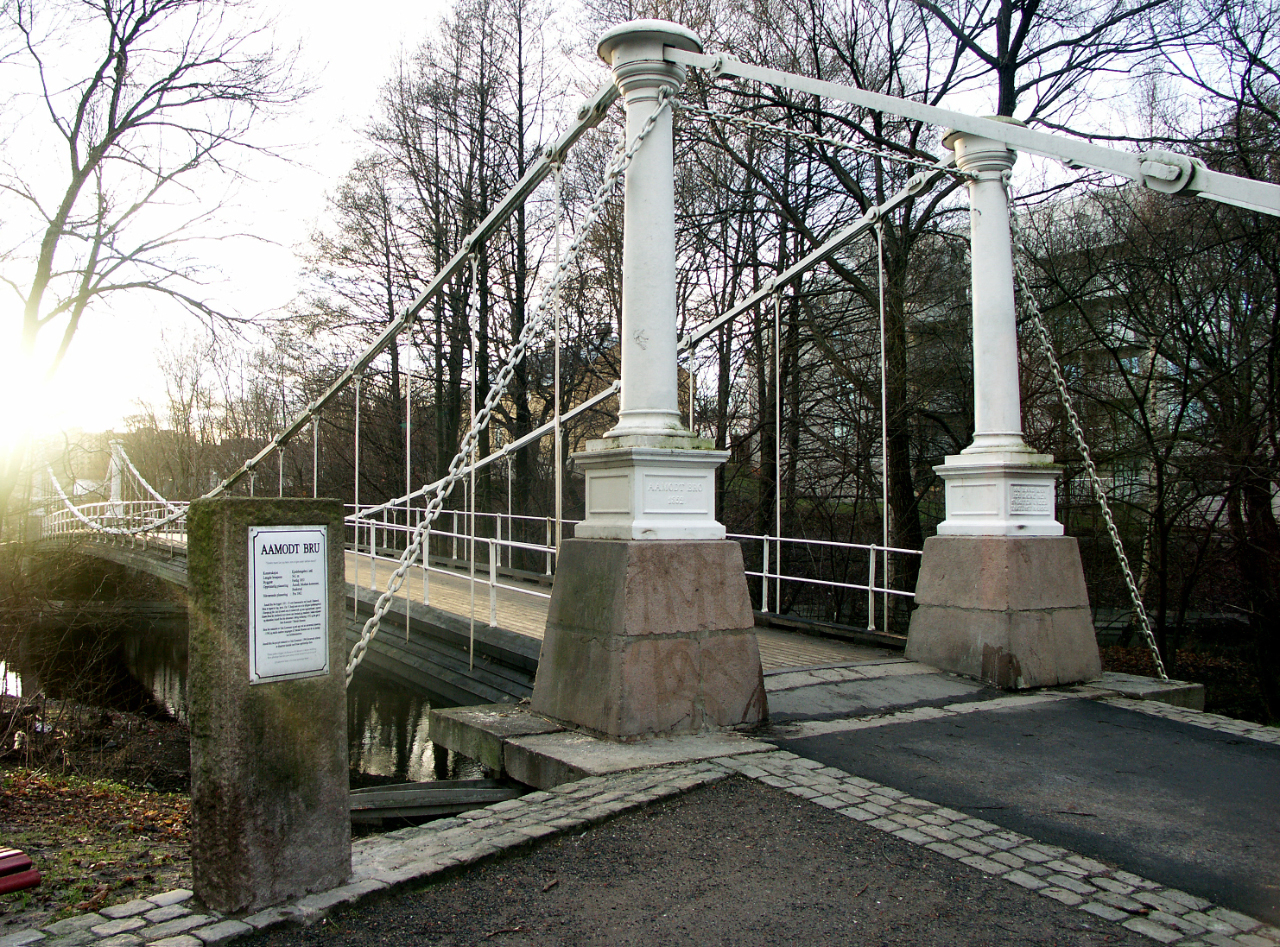 Aamodt bru was originally built in the early 1850's and moved in 1962 to river Aker in Oslo.